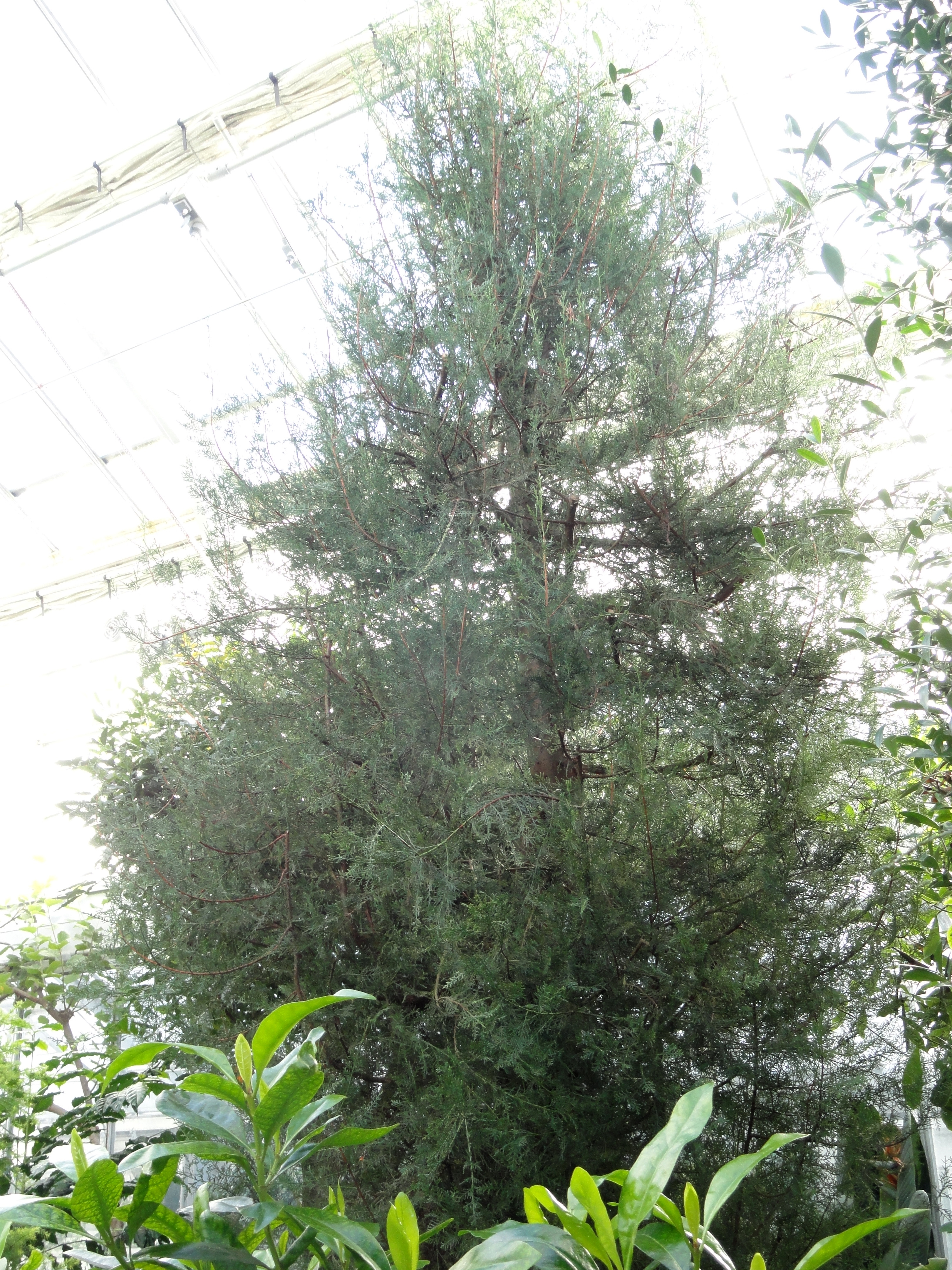 Botanical specimen in the Lyman Plant House, Smith College, Northampton, Massachusetts, USA.